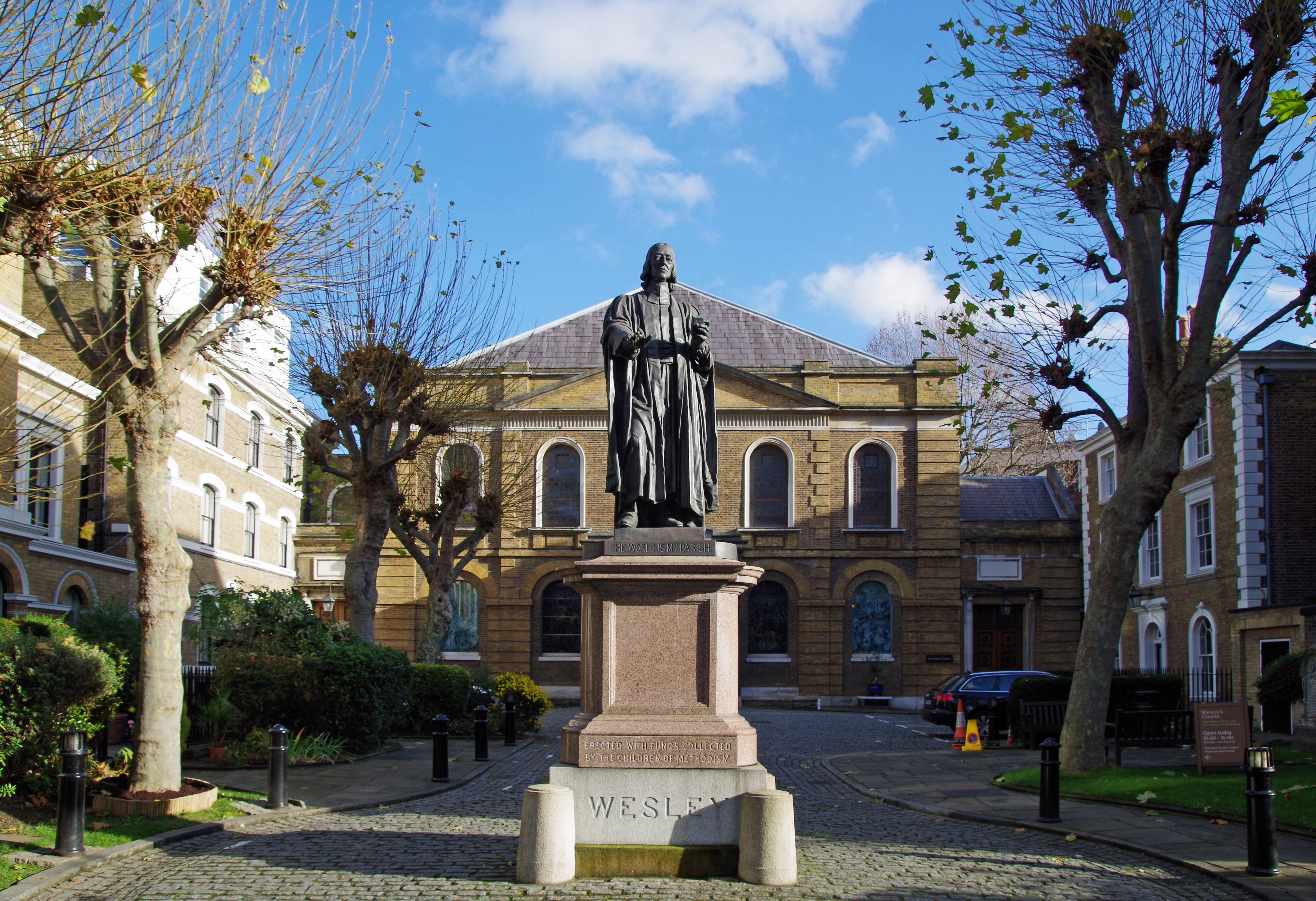 Wesley's Chapel and Leysian Mission, John Wesley's House and the Museum of Methodism at 49 City Road London EC1Y 1AU